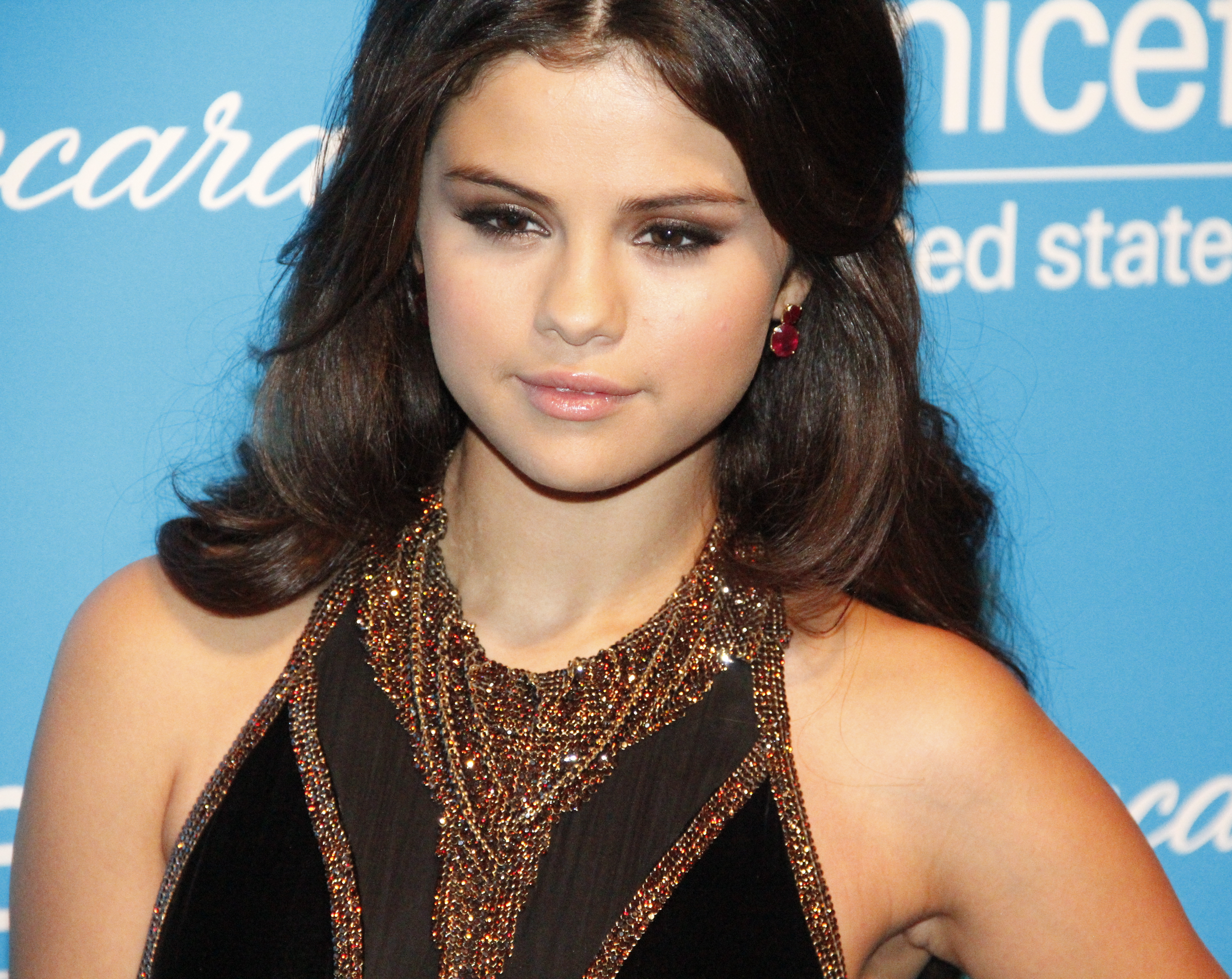 Selena Gomez at the UNICEF Snowflake Ball 2012 in New York City.